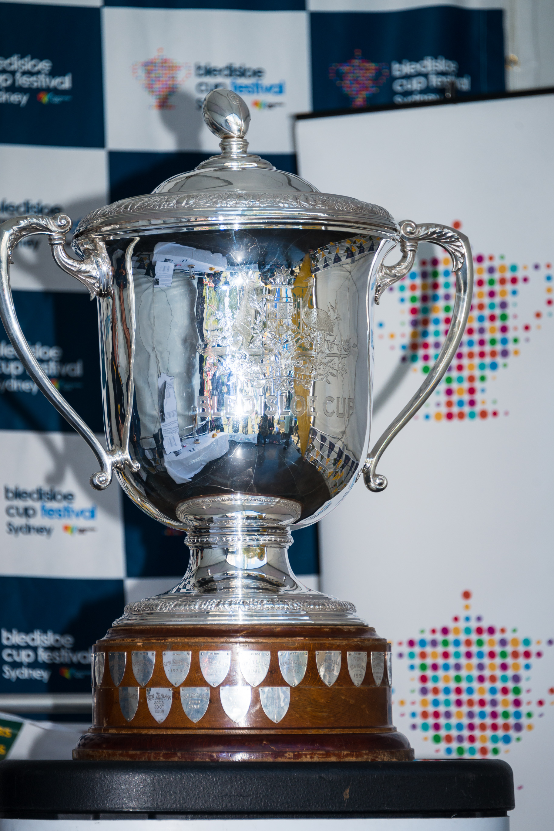 Bledisloe Cup on display in Sydney 2014